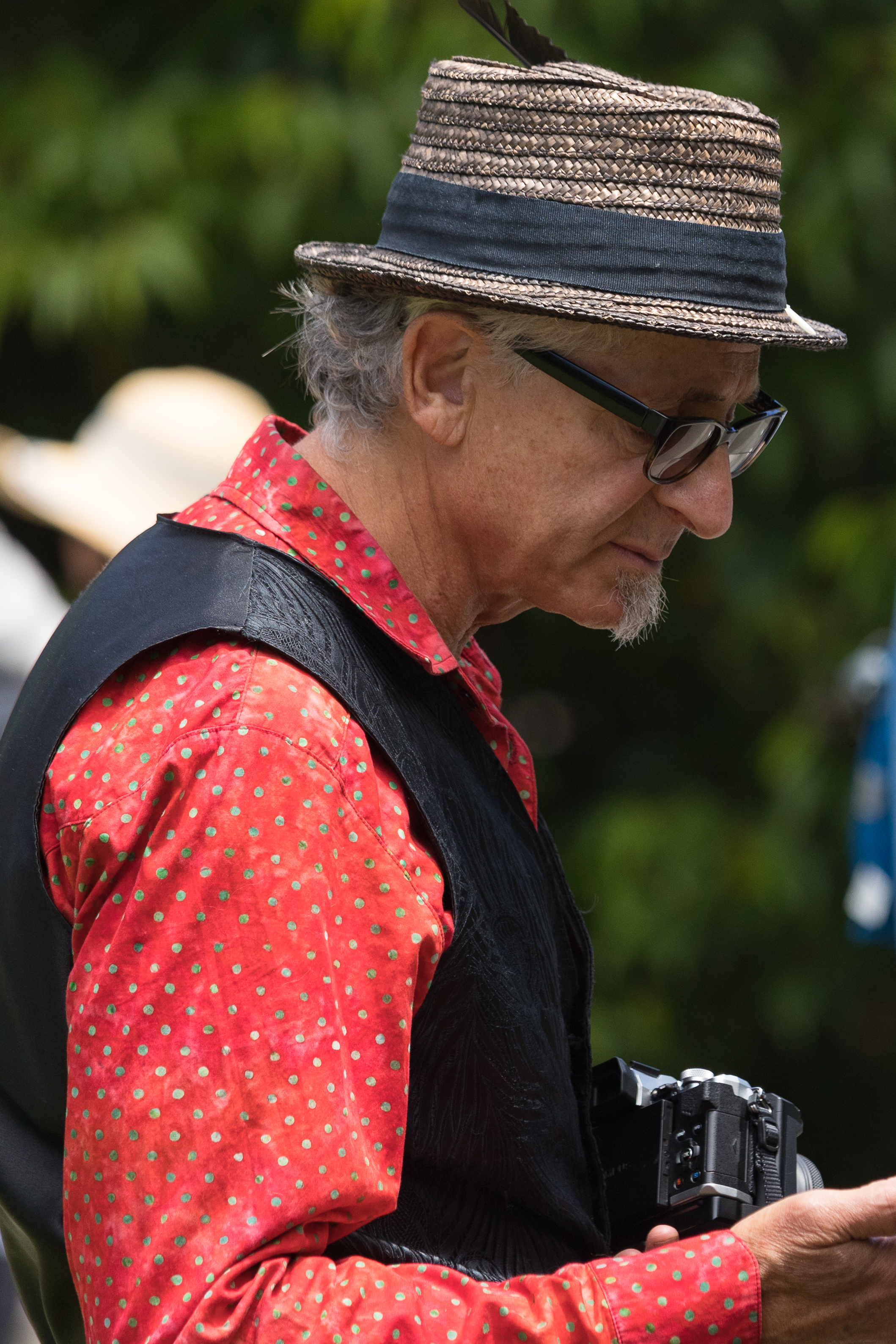 Dean Mermell at 4th annual Flower Piano event he co-produced at the San Francisco Botanical Garden, July 7, 2018